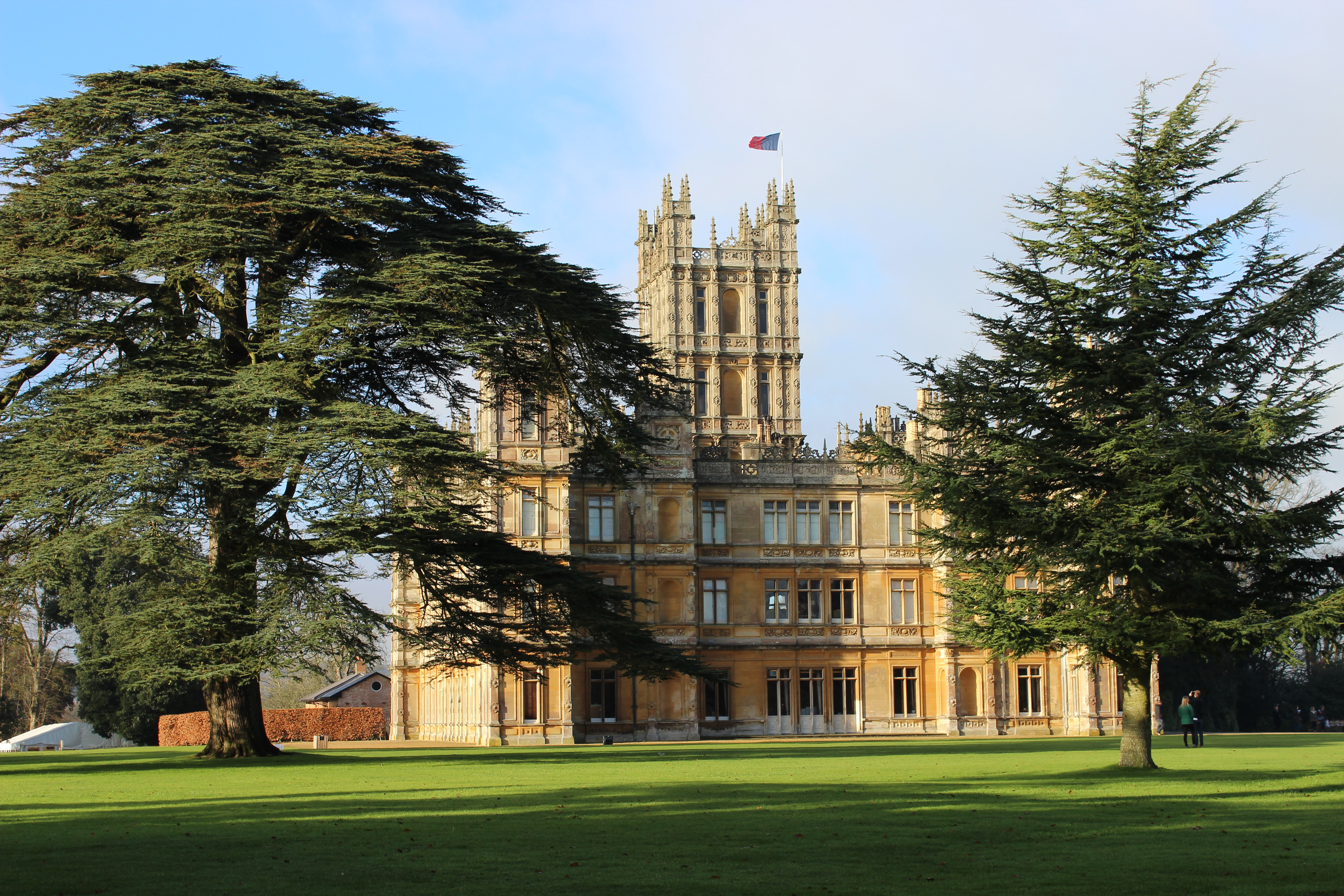 Highclere Castle